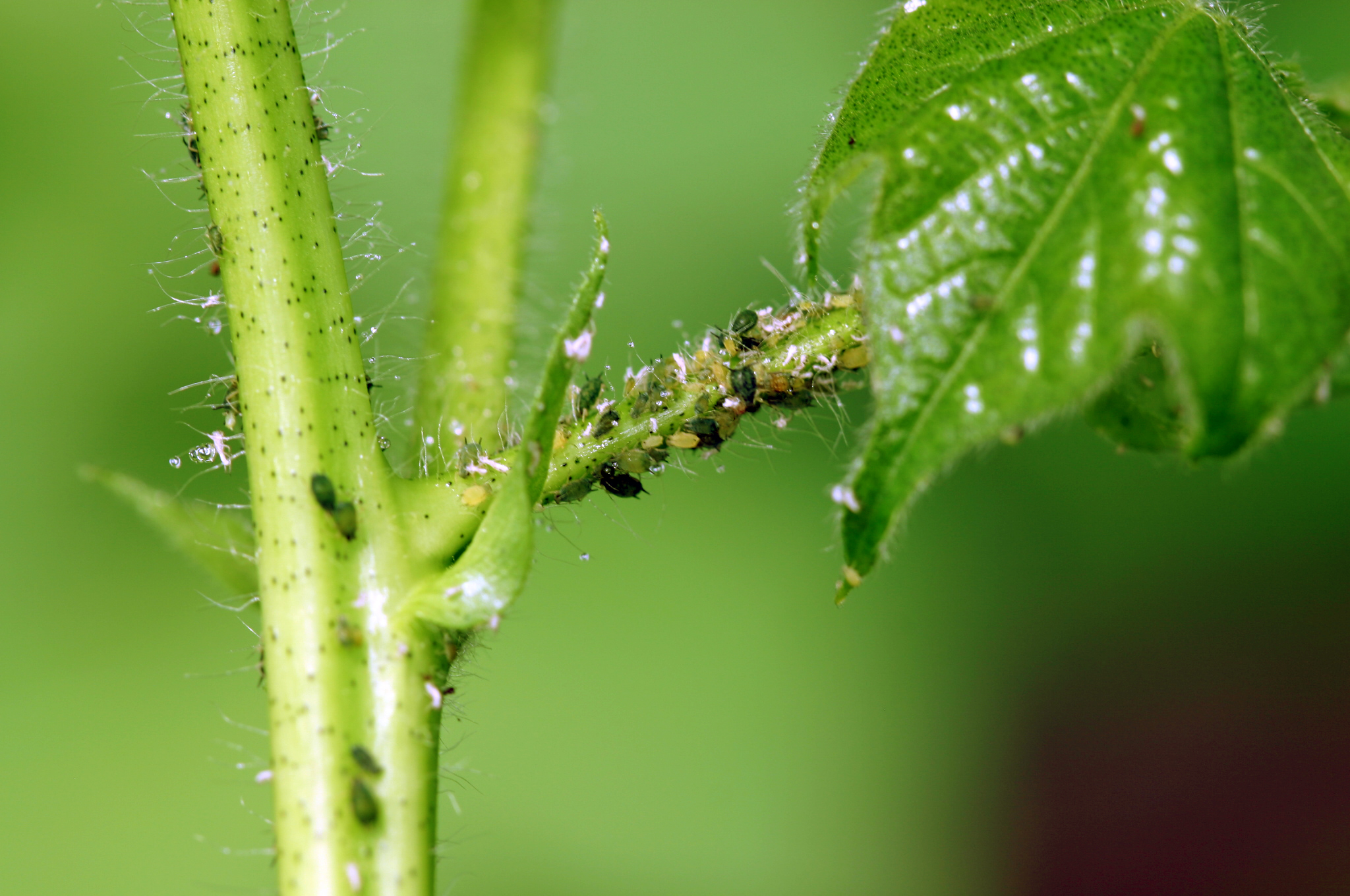 Cotton aphids on young fruiting branch.